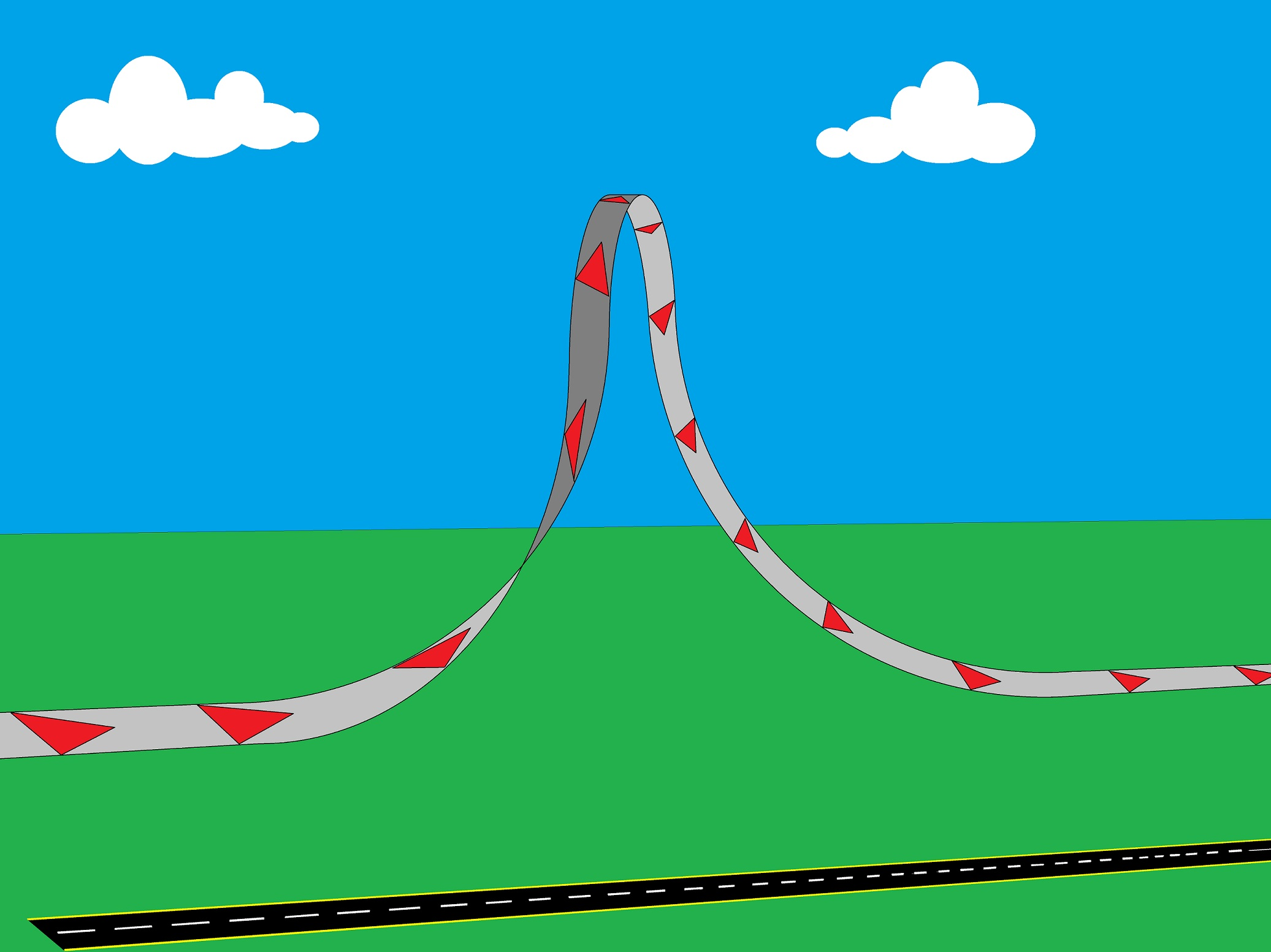 A barrel roll, as viewed from the side